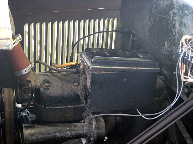 '26 Ford T engine, shot in local shop